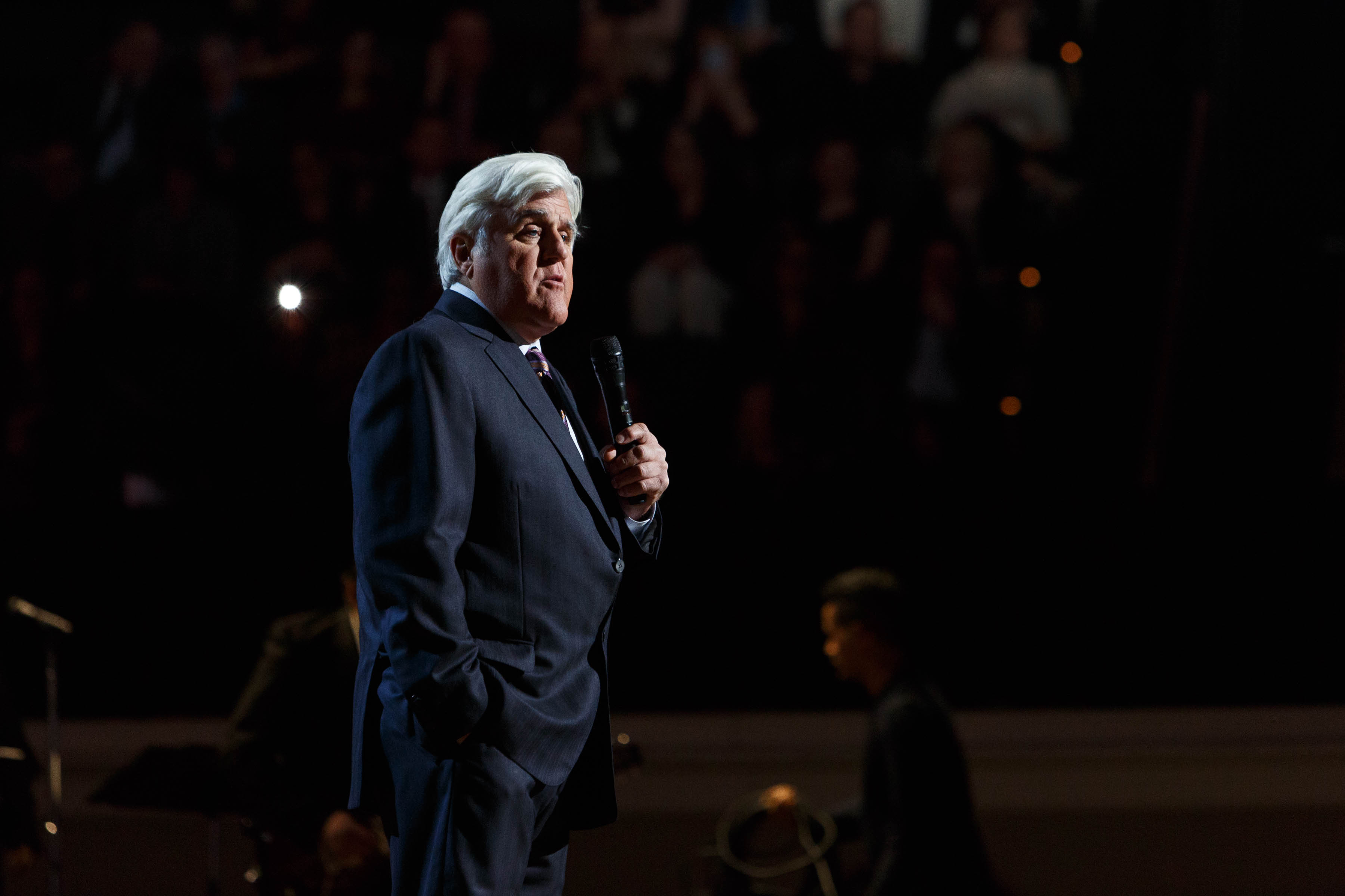 Jay Leno speaks at the 2020 Library of Congress Gershwin Prize for Popular Song concert honoring Garth Brooks at DAR Constitution Hall in Washington, D.C., March 4, 2020. Photo by Shawn Miller/Library of Congress. Note: Privacy and publicity rights for individuals depicted may apply.